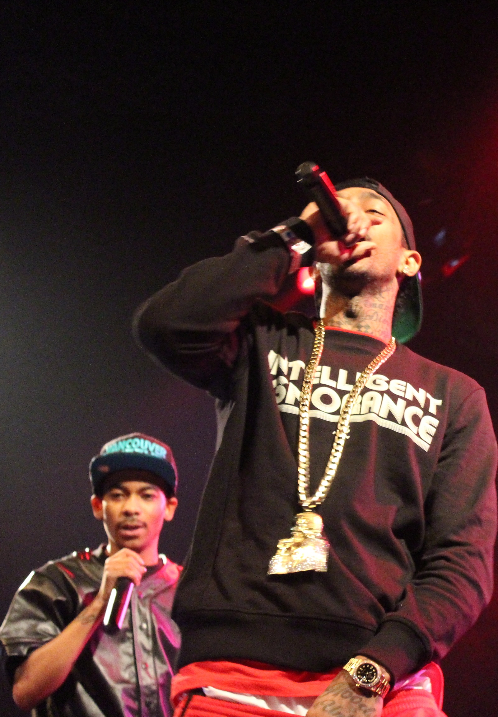 Nipsey Hussle (front) performing with singer TeeFlii in December 2013.